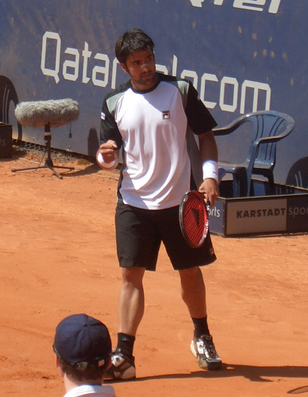 Janko Tipsarević at the Hamburg Masters 2008